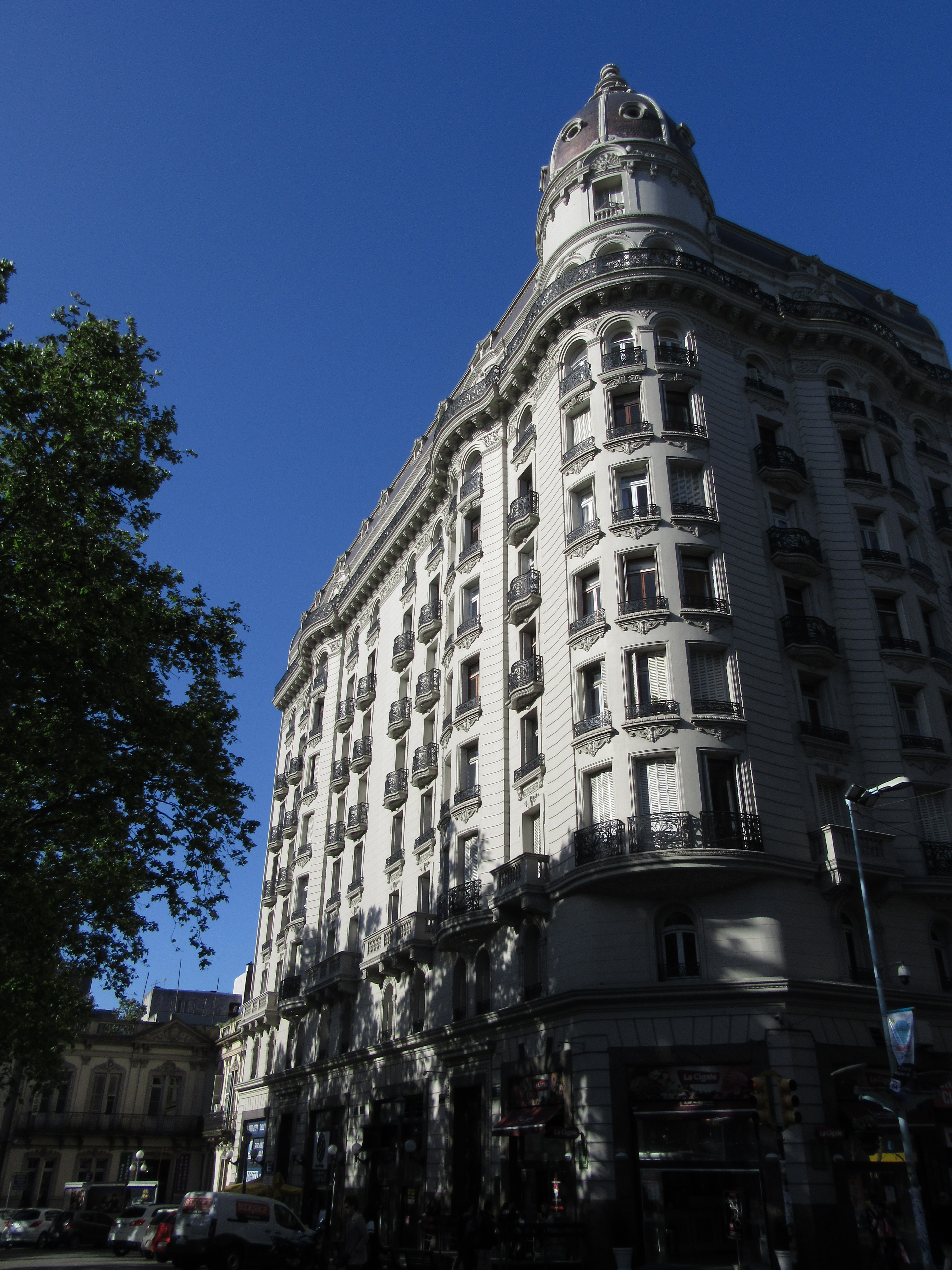 Montevideo